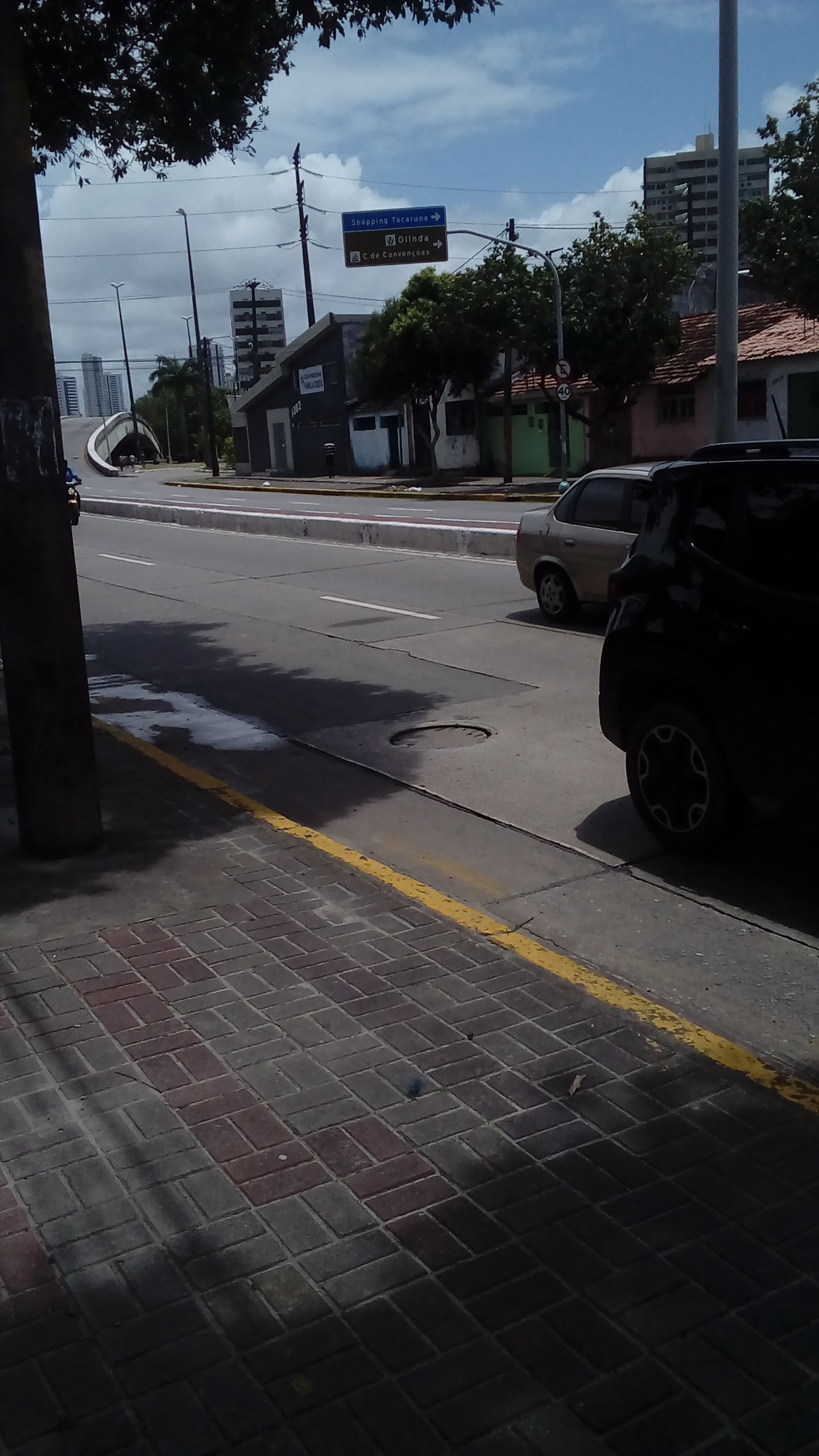 Avenida Norte, uma das avenidas que circulam mais veículos da cidade do Recife, apenas atrás da Avenida Cruz Cabugá entre outras avenidas da cidade.